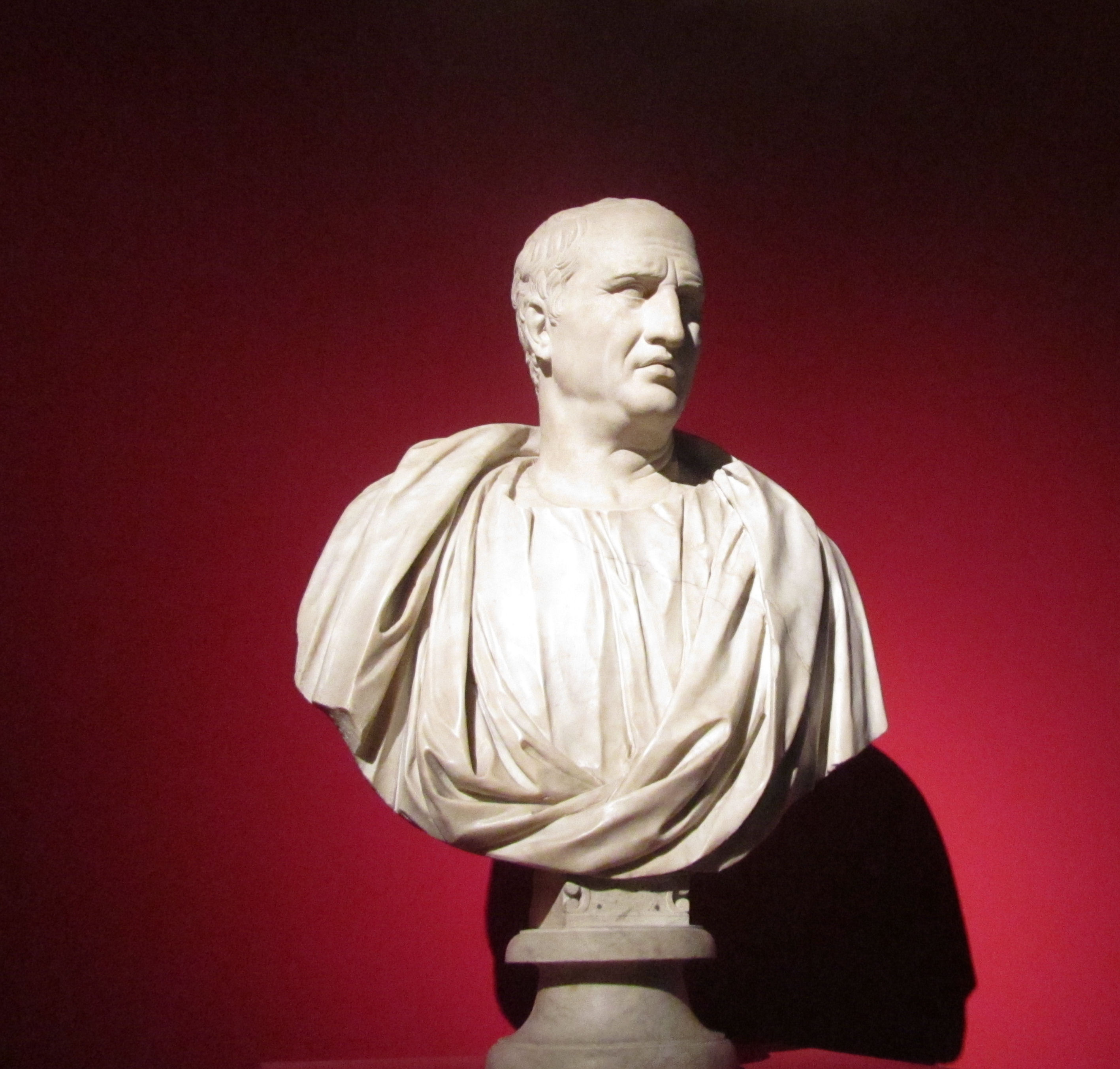 M. Tullius Cicero